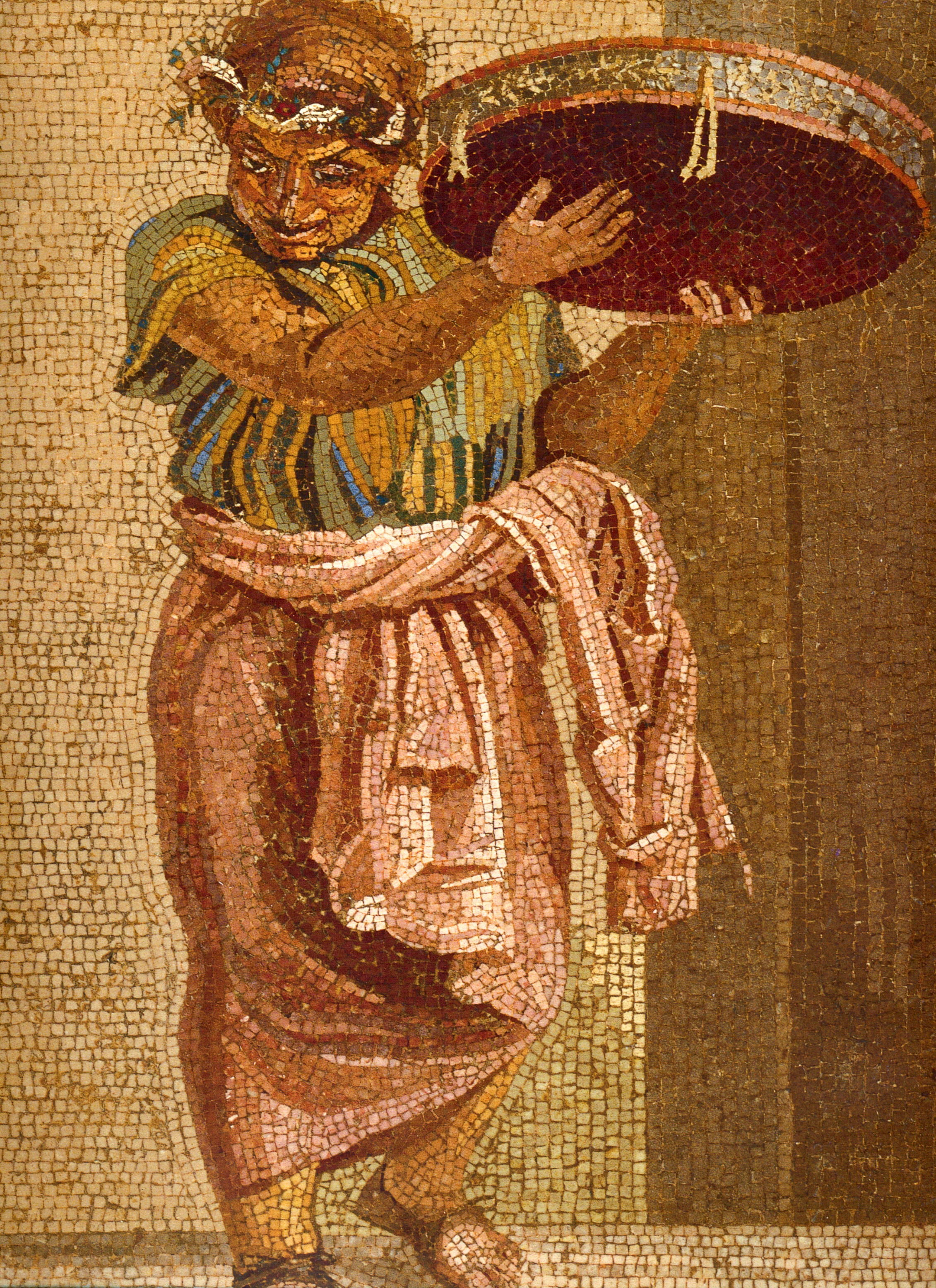 Musician with tympanon. Detail of a roman mosaic of a street scene with musicians from the Villa del Cicerone in Pompeii. Ther mosaic is signed by Dioskurides of Samos. Museo Archeologico Nazionale (Naples).